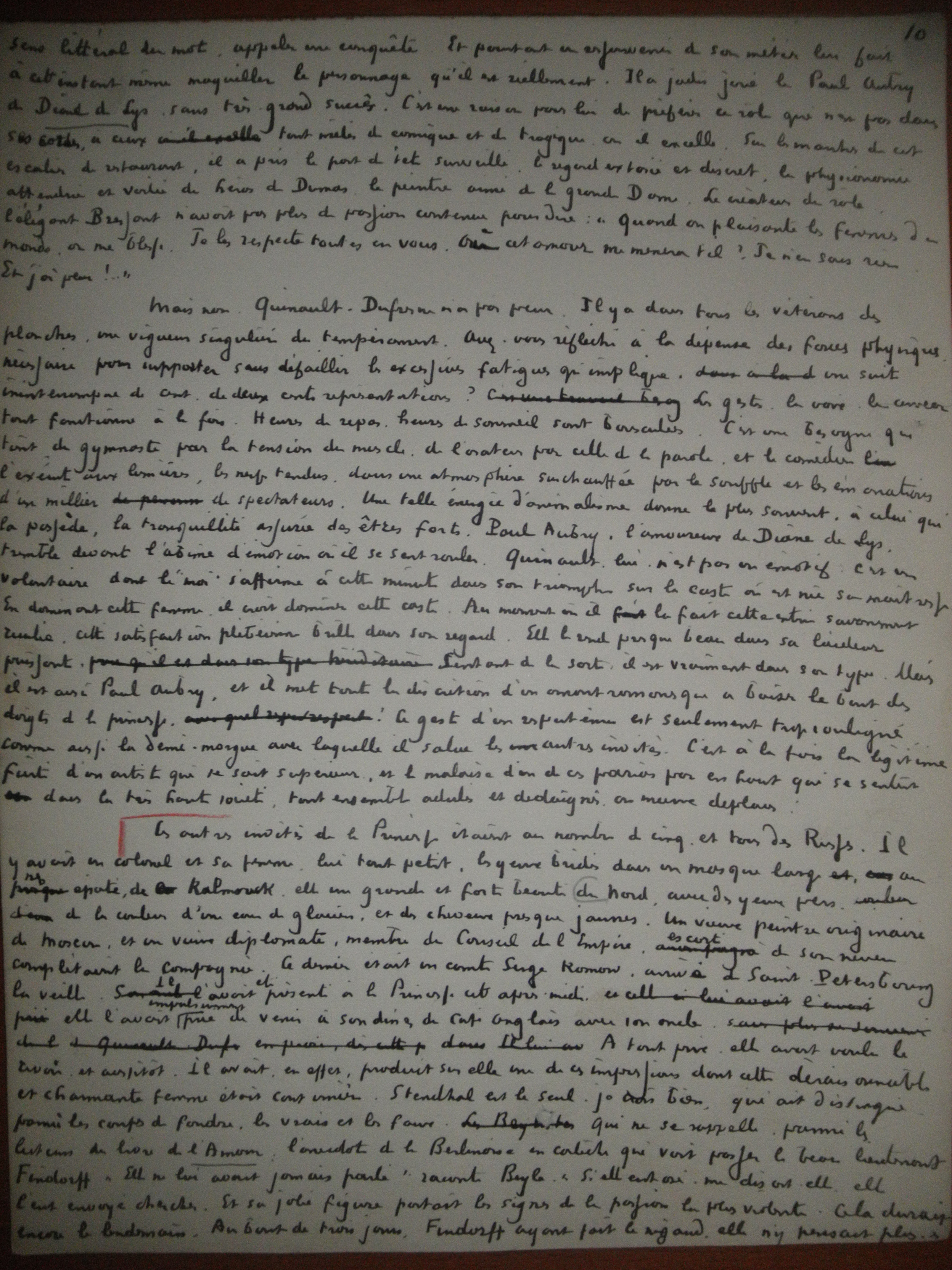 beau rôle 10